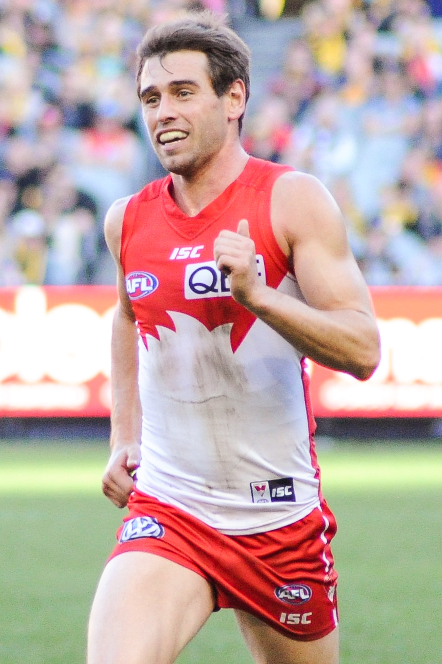 Nick Smith during the AFL round thirteen match between Richmond and Sydney on 17 June 2017 at the Melbourne Cricket Ground in Melbourne, Victoria.